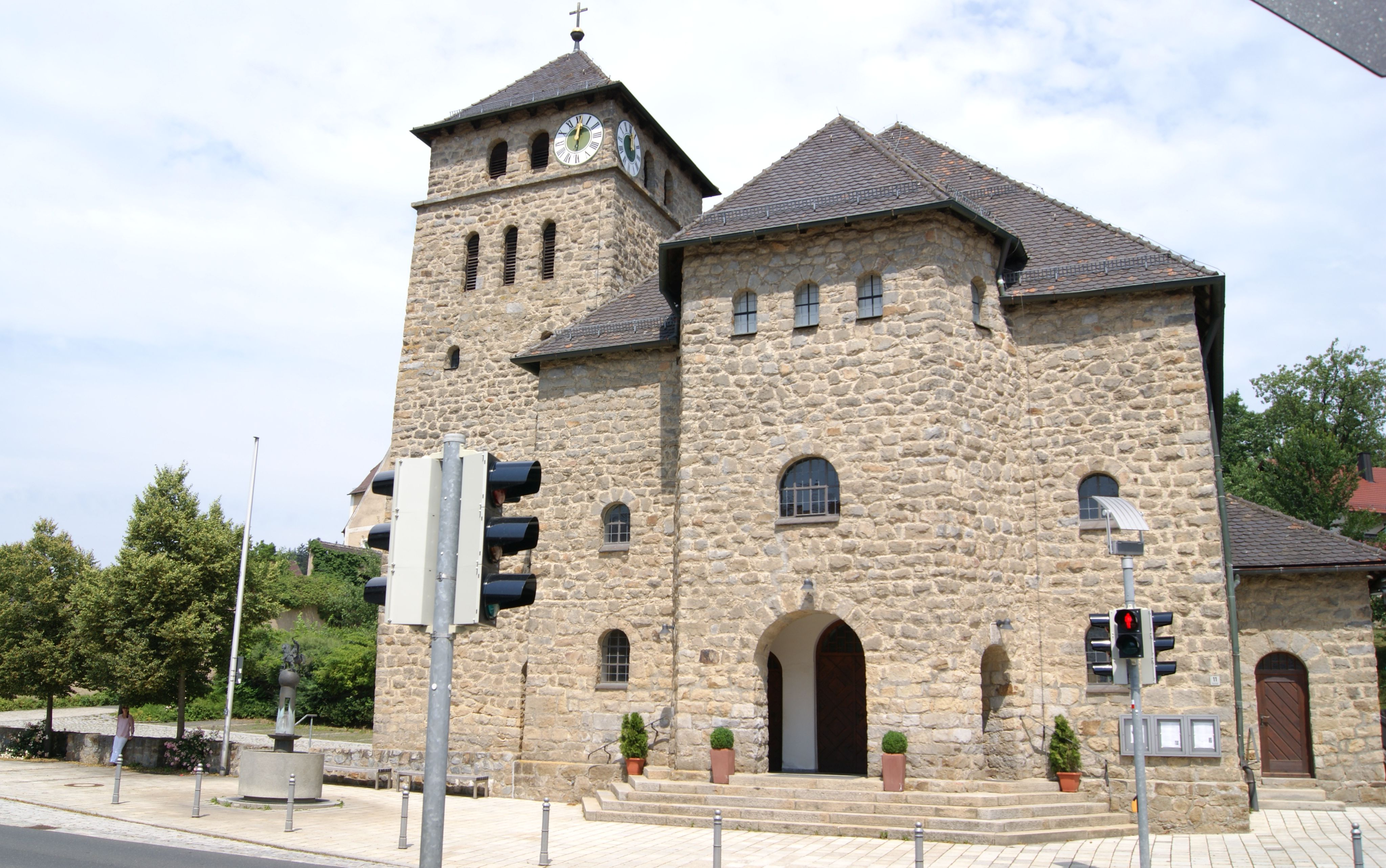 Waffenbrunn, District Cham, Germany. Catholic Parish of the Assumption on the main road.